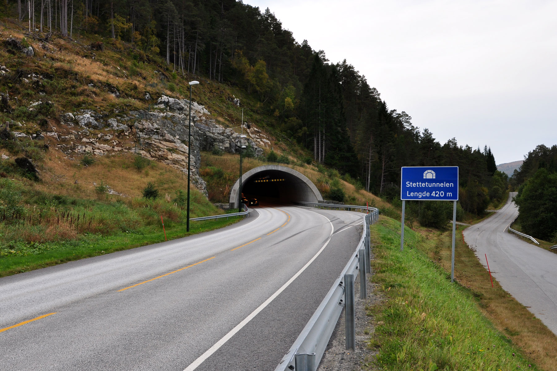 The northern entrace to the Stette tunnel.